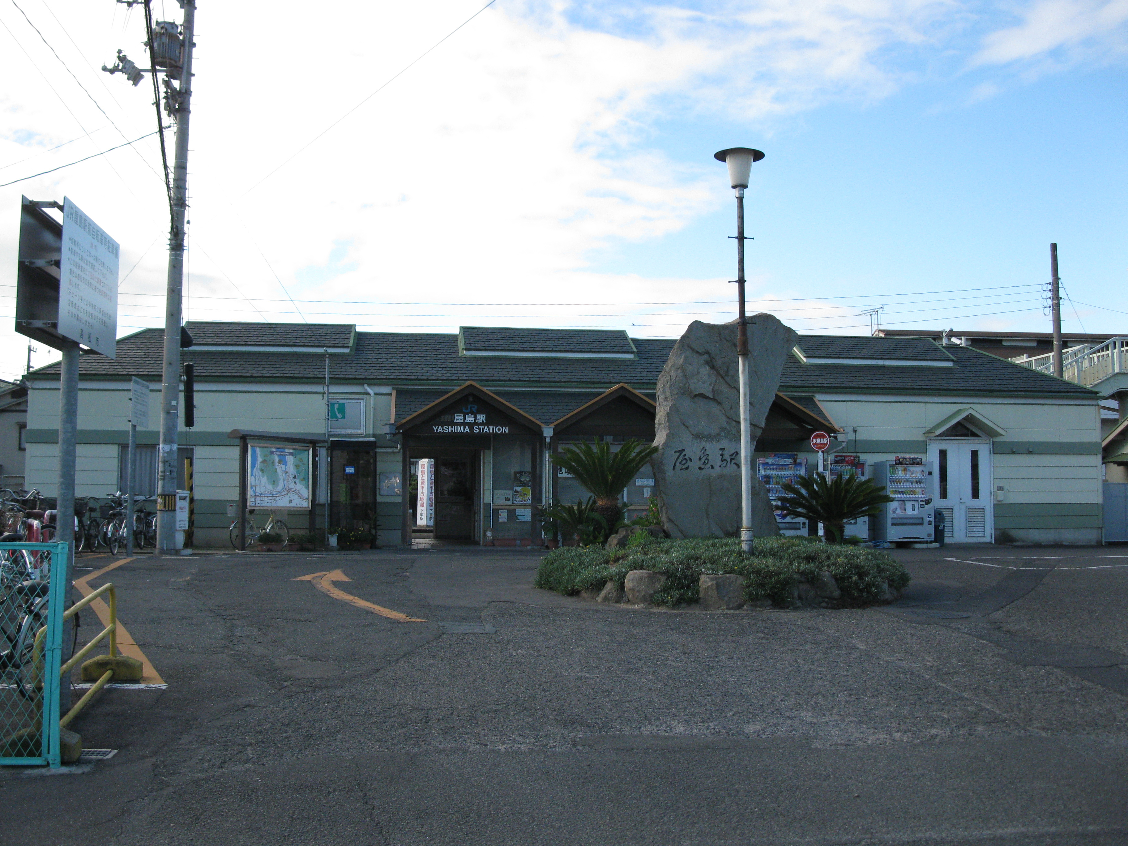 Yashima Station building (Shikoku Railway(JR Shikoku) Kōtoku Line)